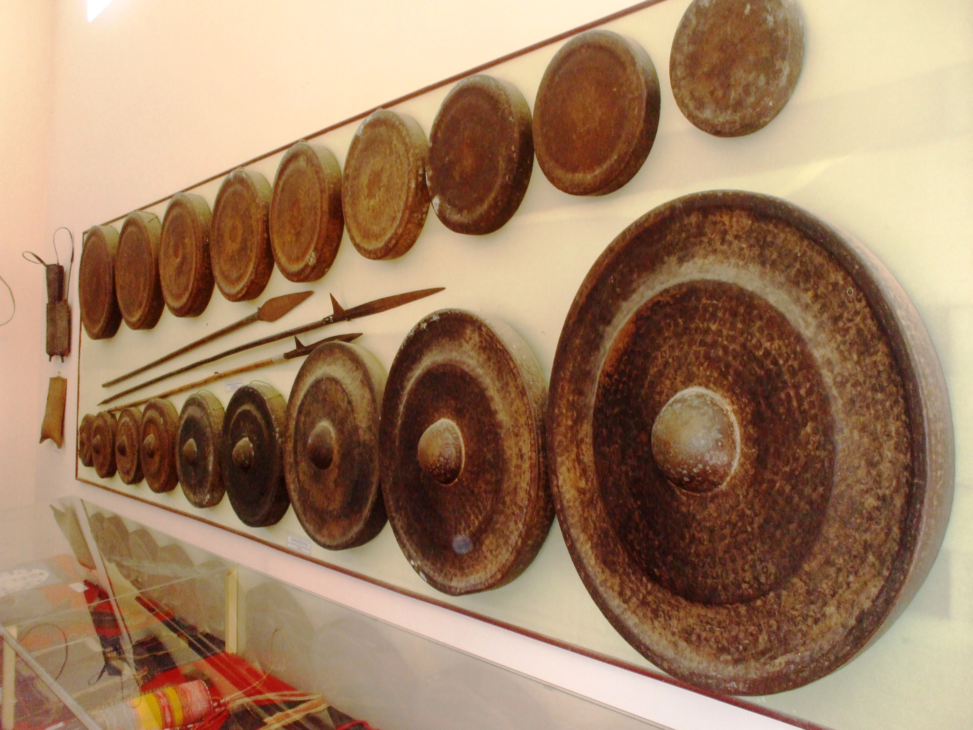 Vietnamese Ministry of gongs in Quang Trung Museum (Vietnam).